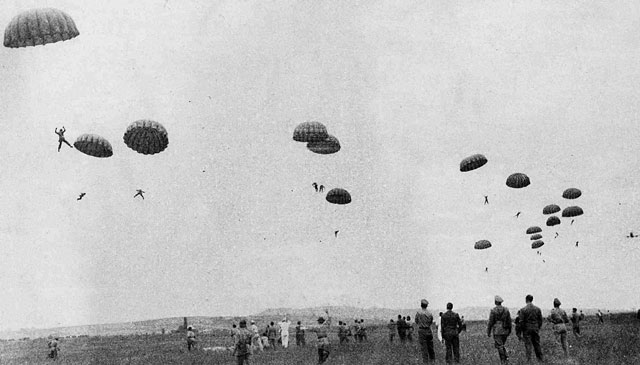 Milatary exercise of the "Paracadutisti dell'Aeronautica Nazionale Repubblicana" at the Venegono airport in 1943